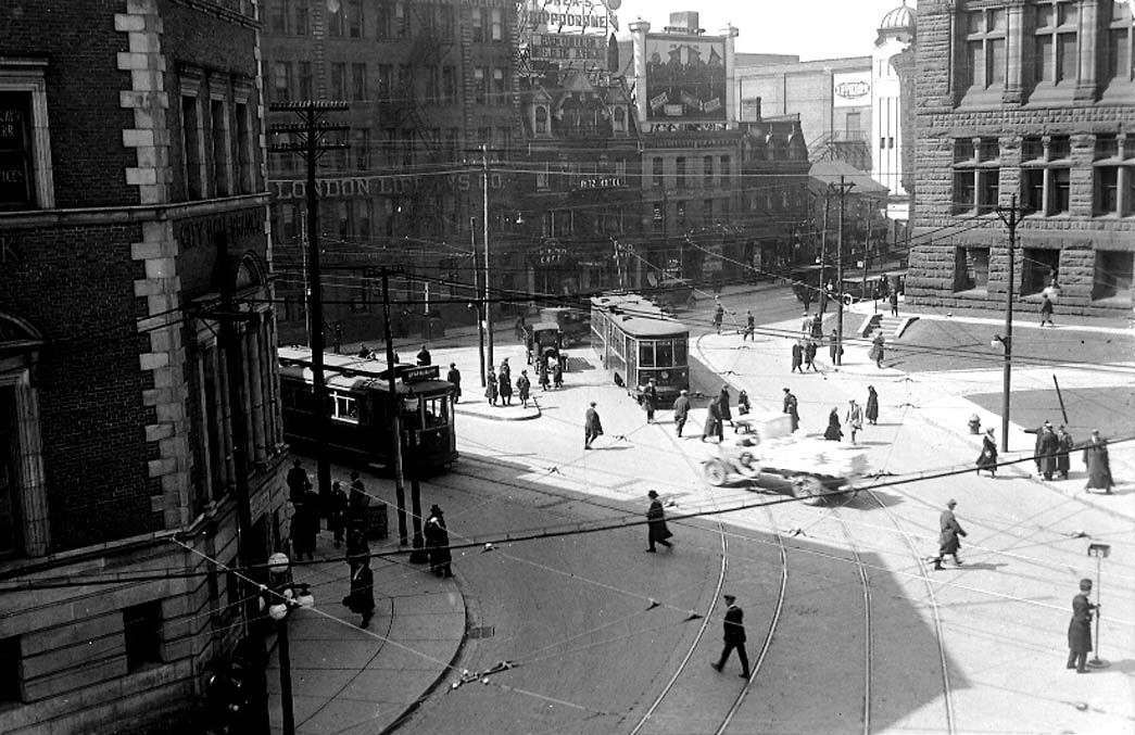 Looking North West towards Old City Hall (upper right) and site of current City Hall (upper left) at Queen and Bay Streets, Toronto, Ontario, Canada.